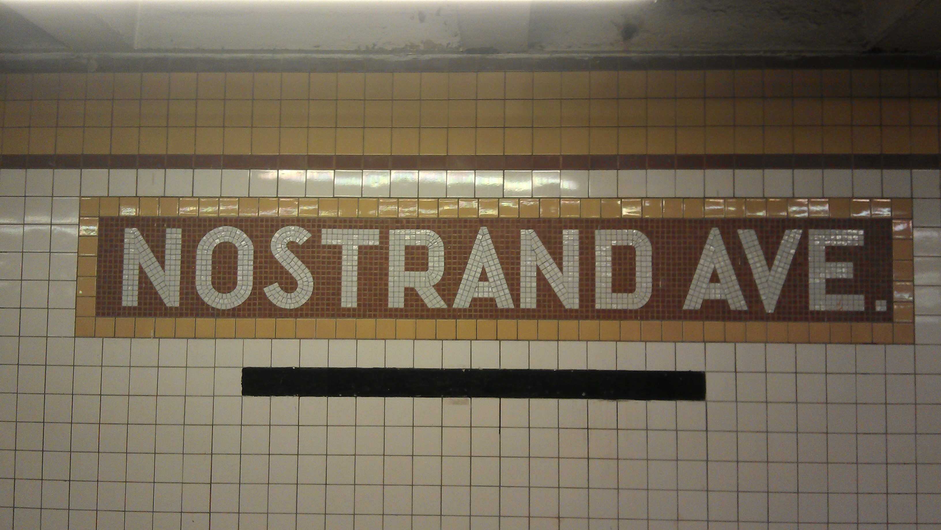 Nostrand Ave Station, Brooklyn